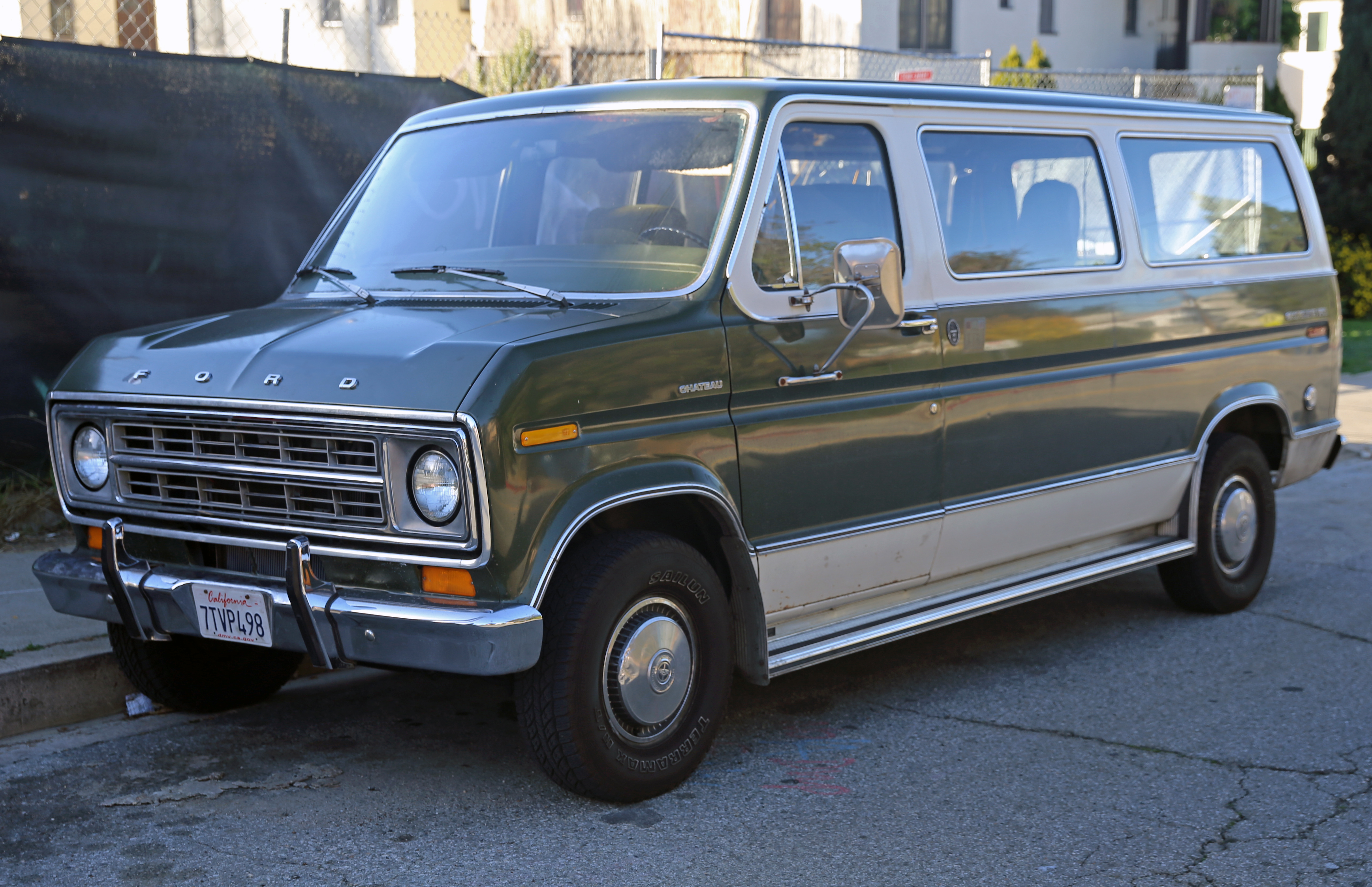 A 1975-1978 Ford Econoline 150 Chateau in Los Angeles, CA.